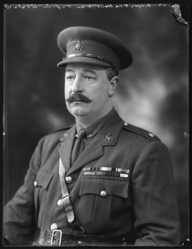 Lord Hothfield